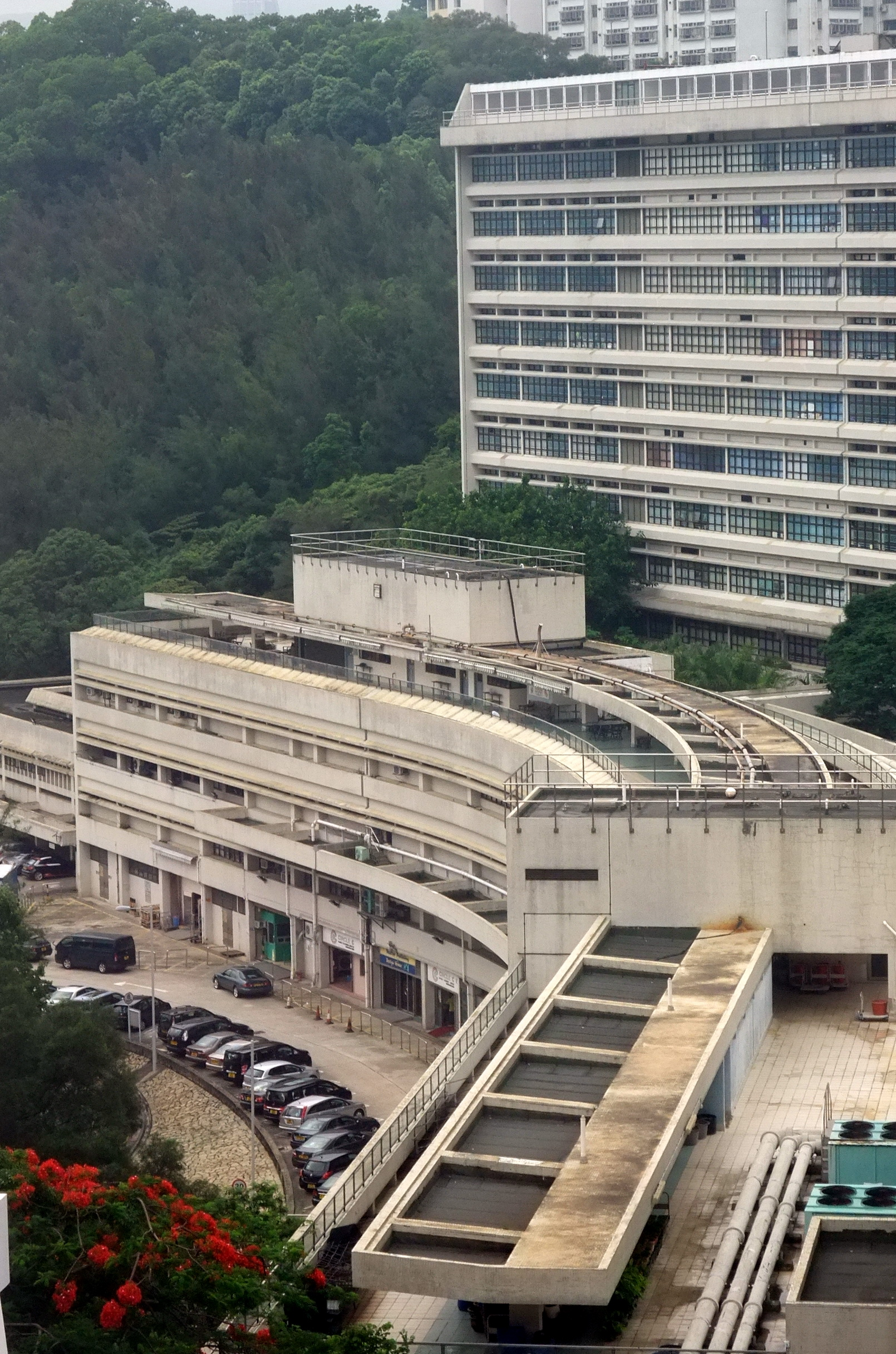 Kwai Chung Hospital, New Territories, Hong Kong.